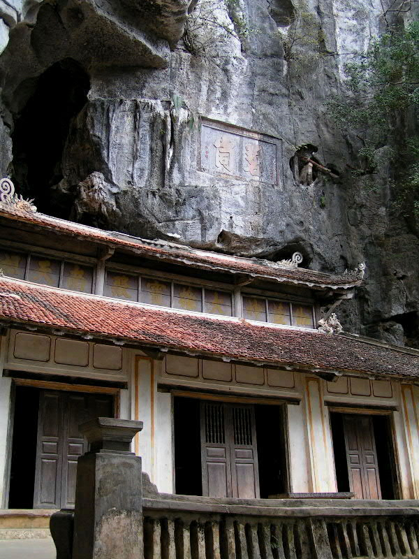 Trung Pagoda, Bich Dong, Ninh Binh Province, Vietnam.